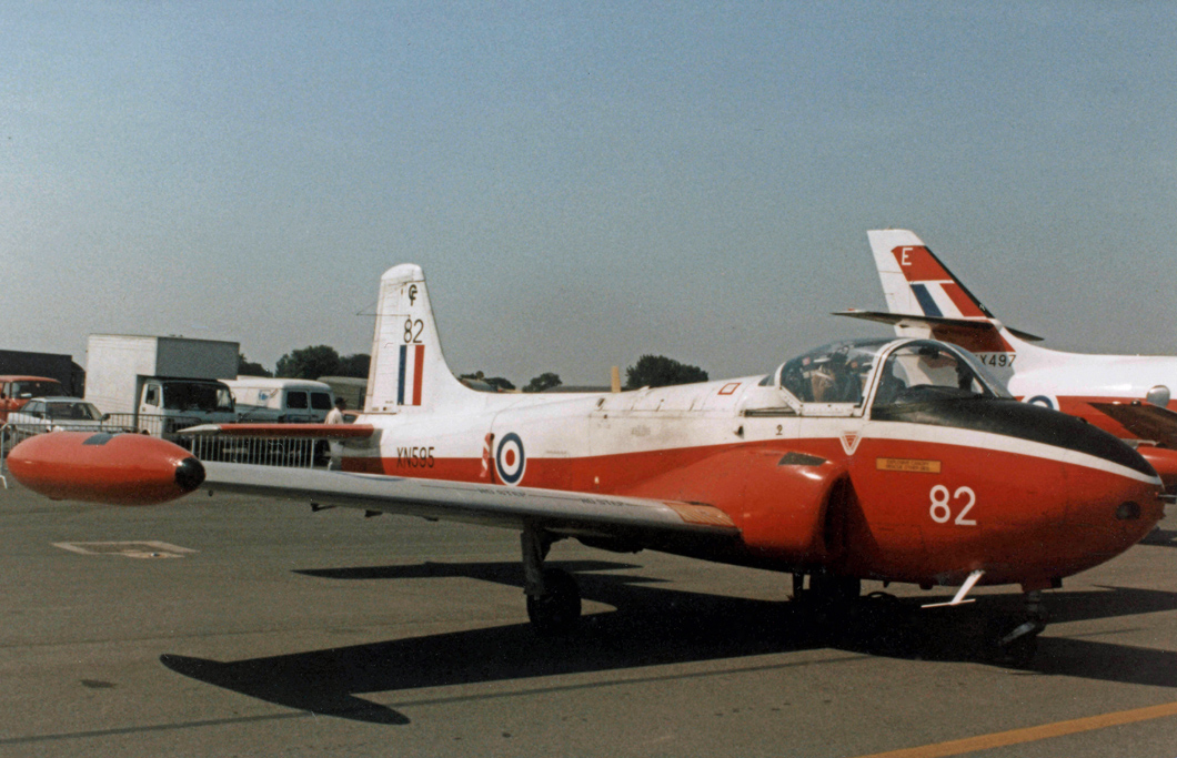 Hunting Jet Provost T.3A XP595 of No. 7 Flying Training School waering the 'CF' fin code of its base, RAF Church Fenton, Yorkshire.